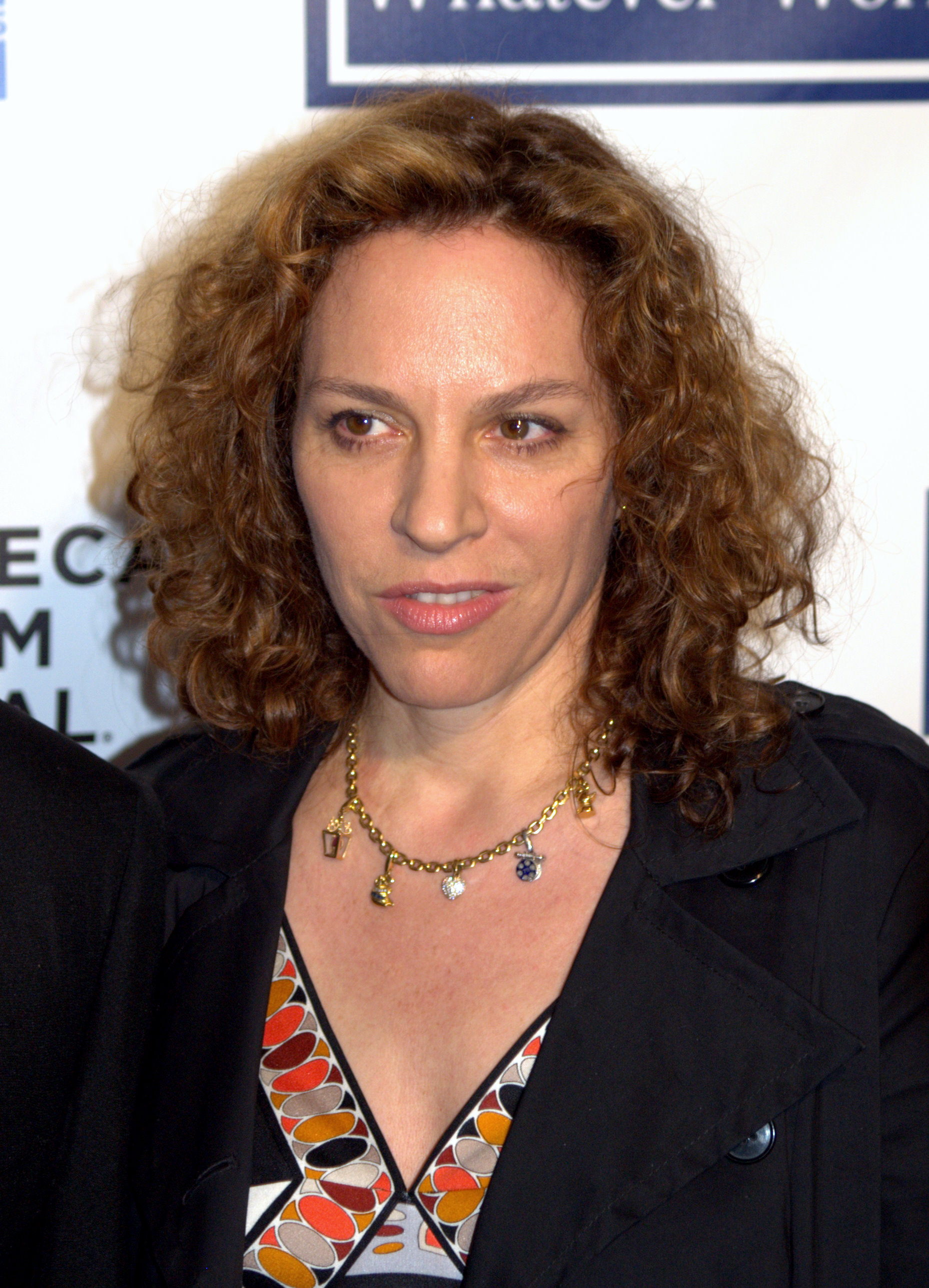 Daphna Kastner at the 2009 Tribeca Film Festival premiere of Woody Allen's Whatever Works.